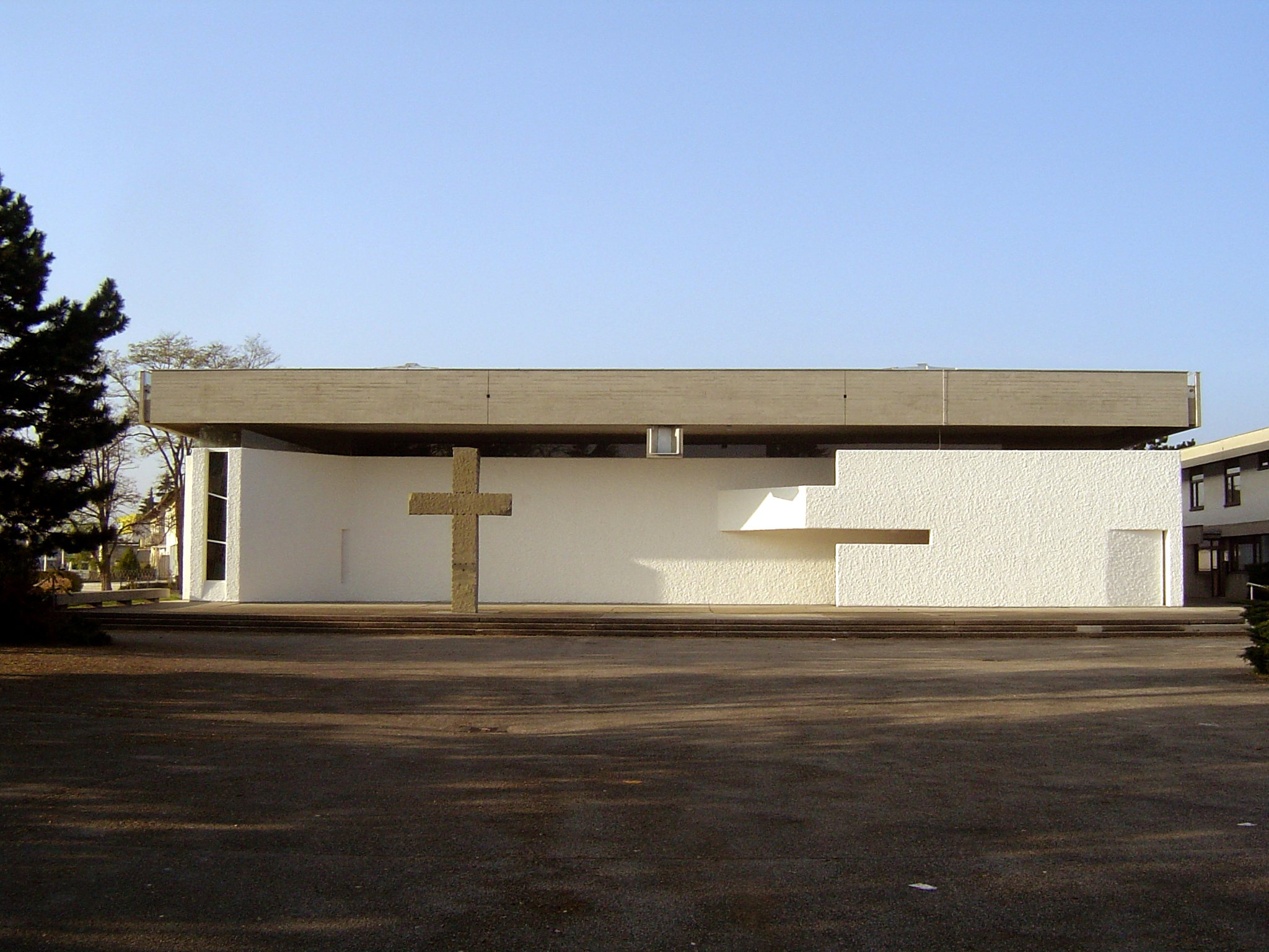 parish church of Langholzfeld, Pasching, Upper Austria